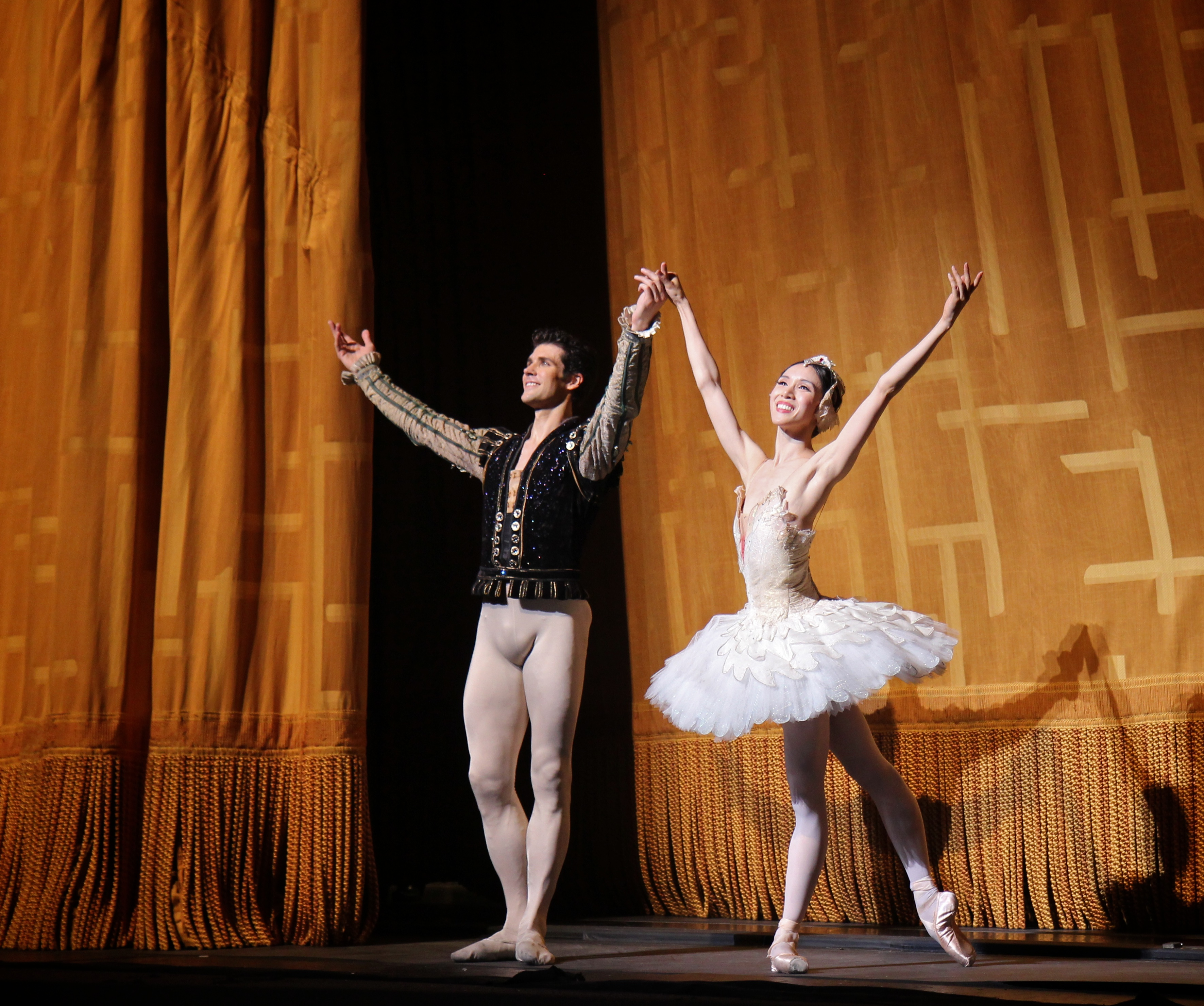 Hee Seo and Roberto Bolle, American Ballet Theatre